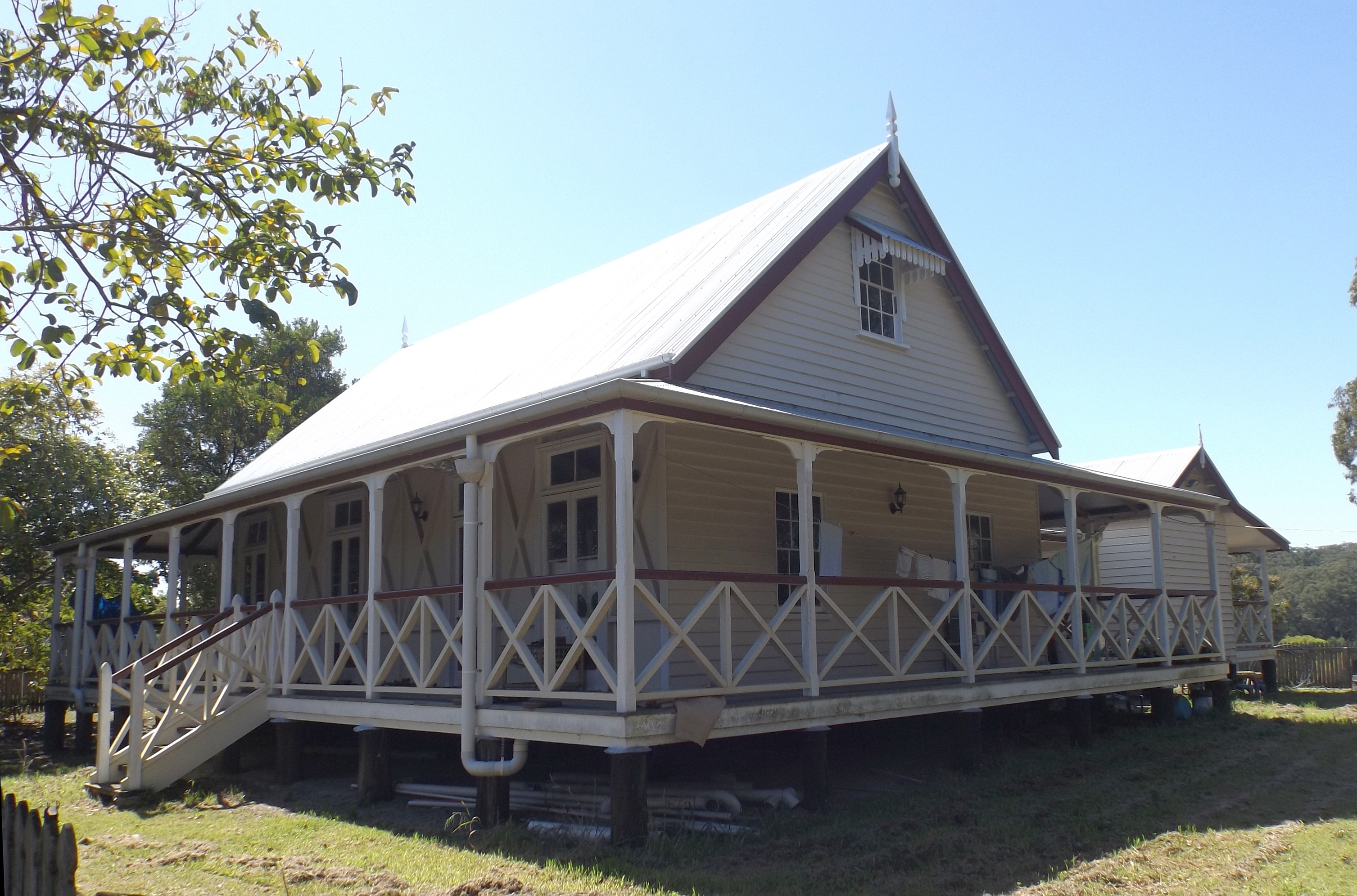 Photo of Laurel Hill Farmhouse at Willow Vale, Logan City, Queensland, Australia.